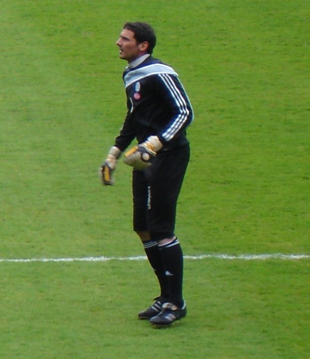 Romain Larrieu warming up.